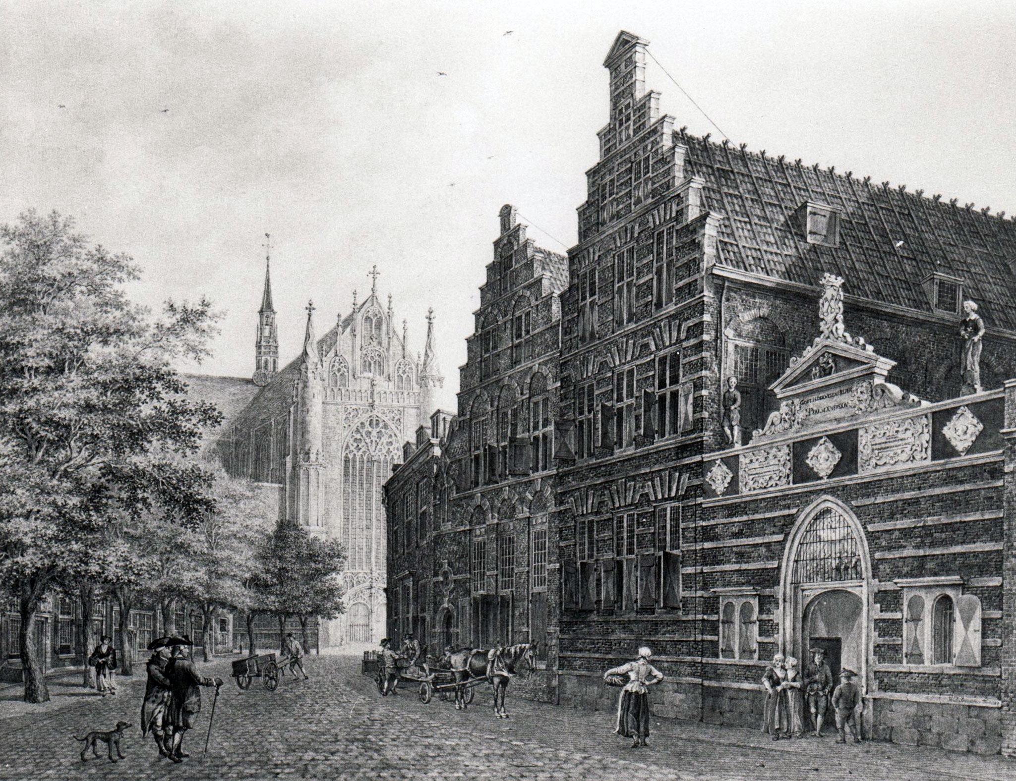 The Heilige Geest orphanage at the Hooglandsekerkgracht in Leiden in the 18th century, reproduction of a painting by Hermanus Petrus Schouten (1747-1822).